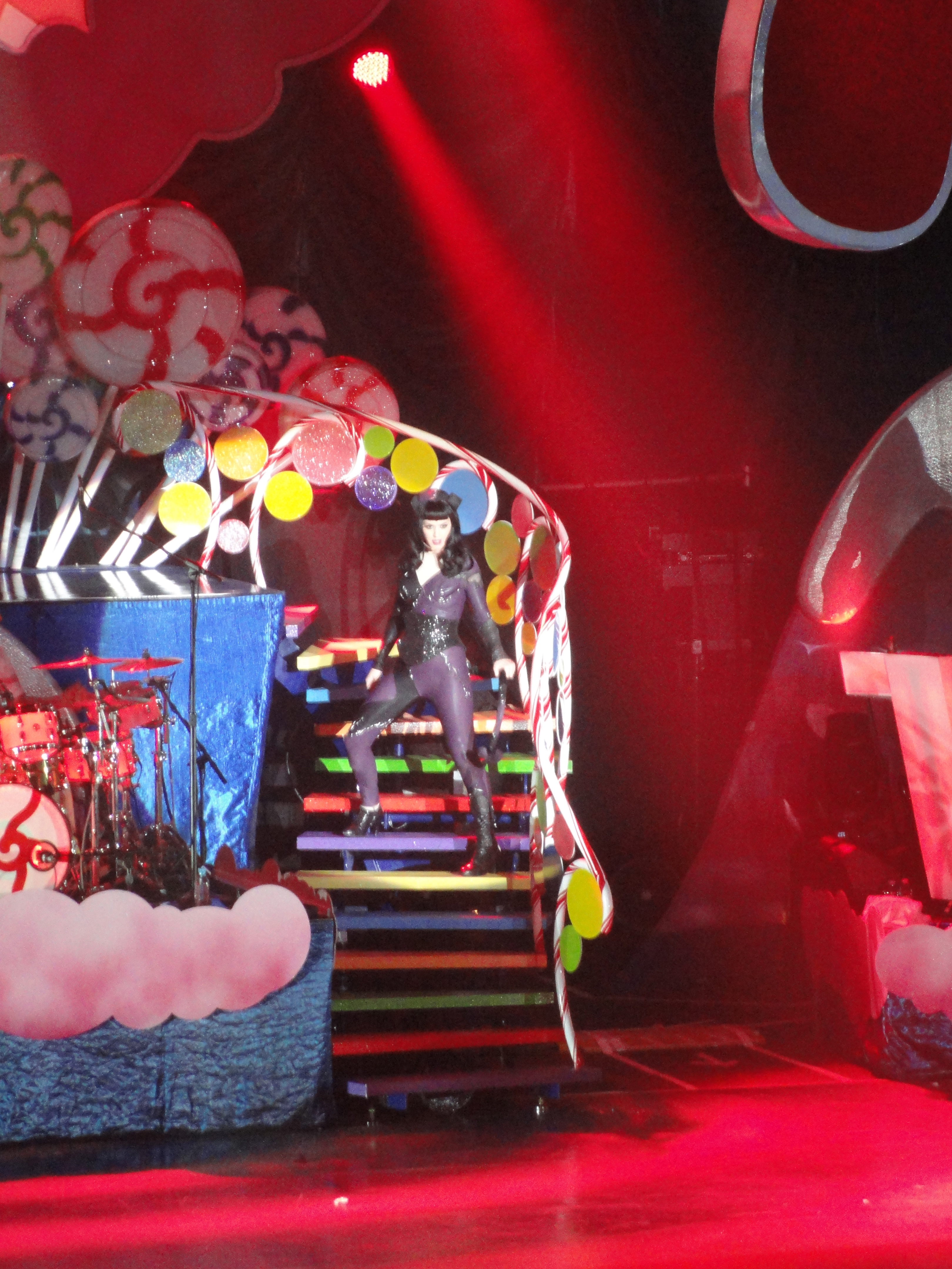 American singer-songwriter Katy Perry performing "Circle the Drain" in Bournemouth, England, in The California Dreams Tour.